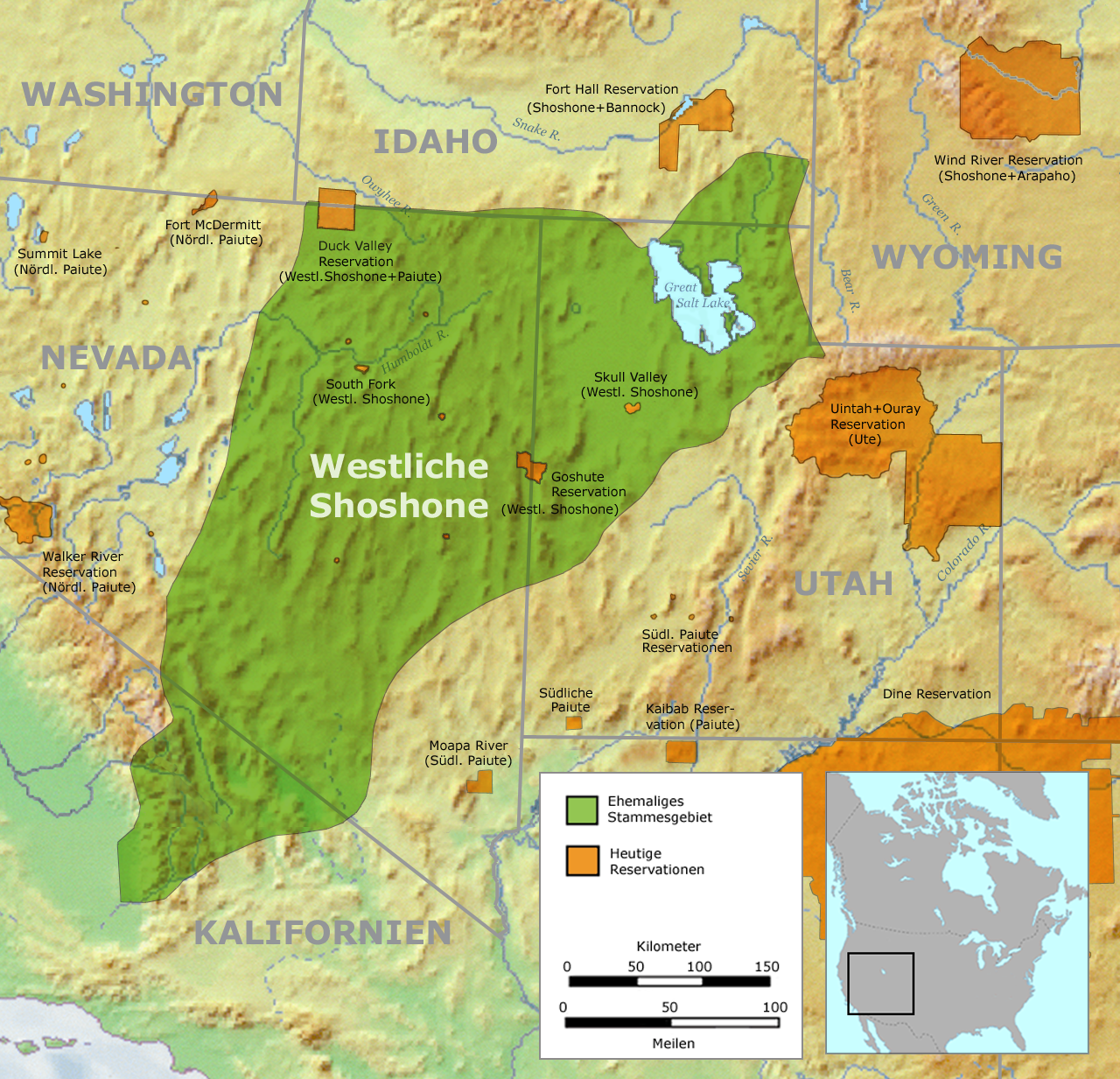 Tribal territory of Western Shoshone